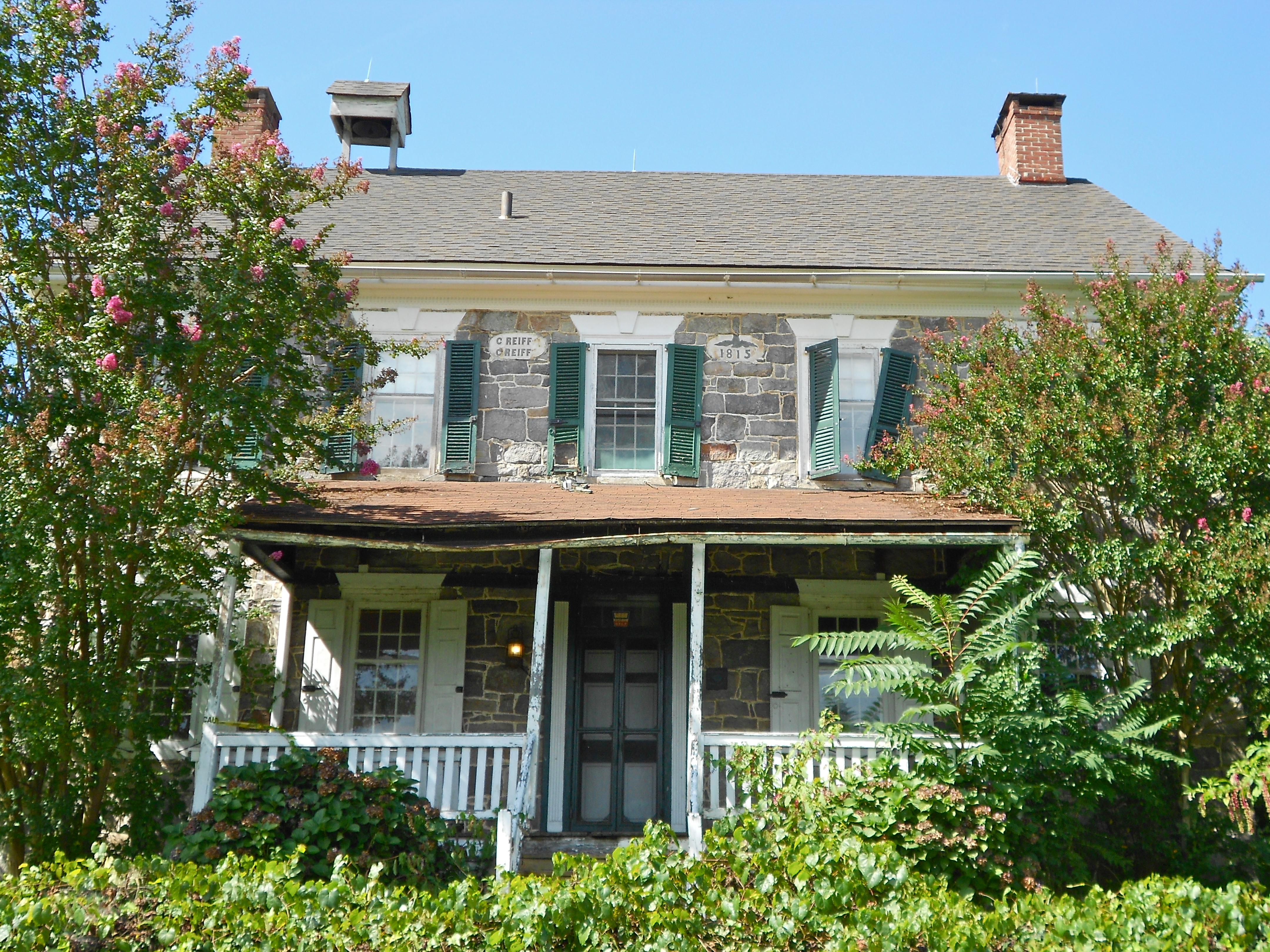 Reiff Farm on Old State Road in Oley Township, Berks County, Pennsylvania. Main House, in somewhat dilapidated condition. The farm looks like it is operating though.